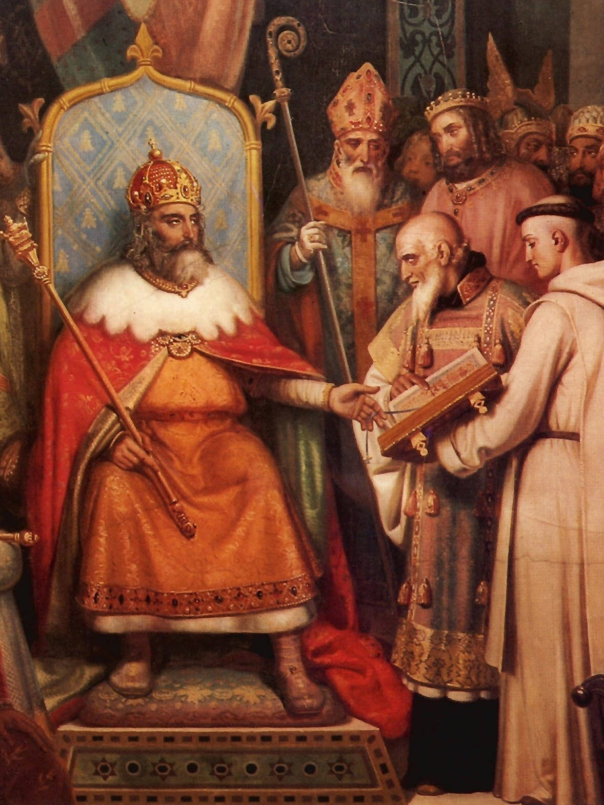 Charlemagne at Alcuin, painted 1830, at the Louvre